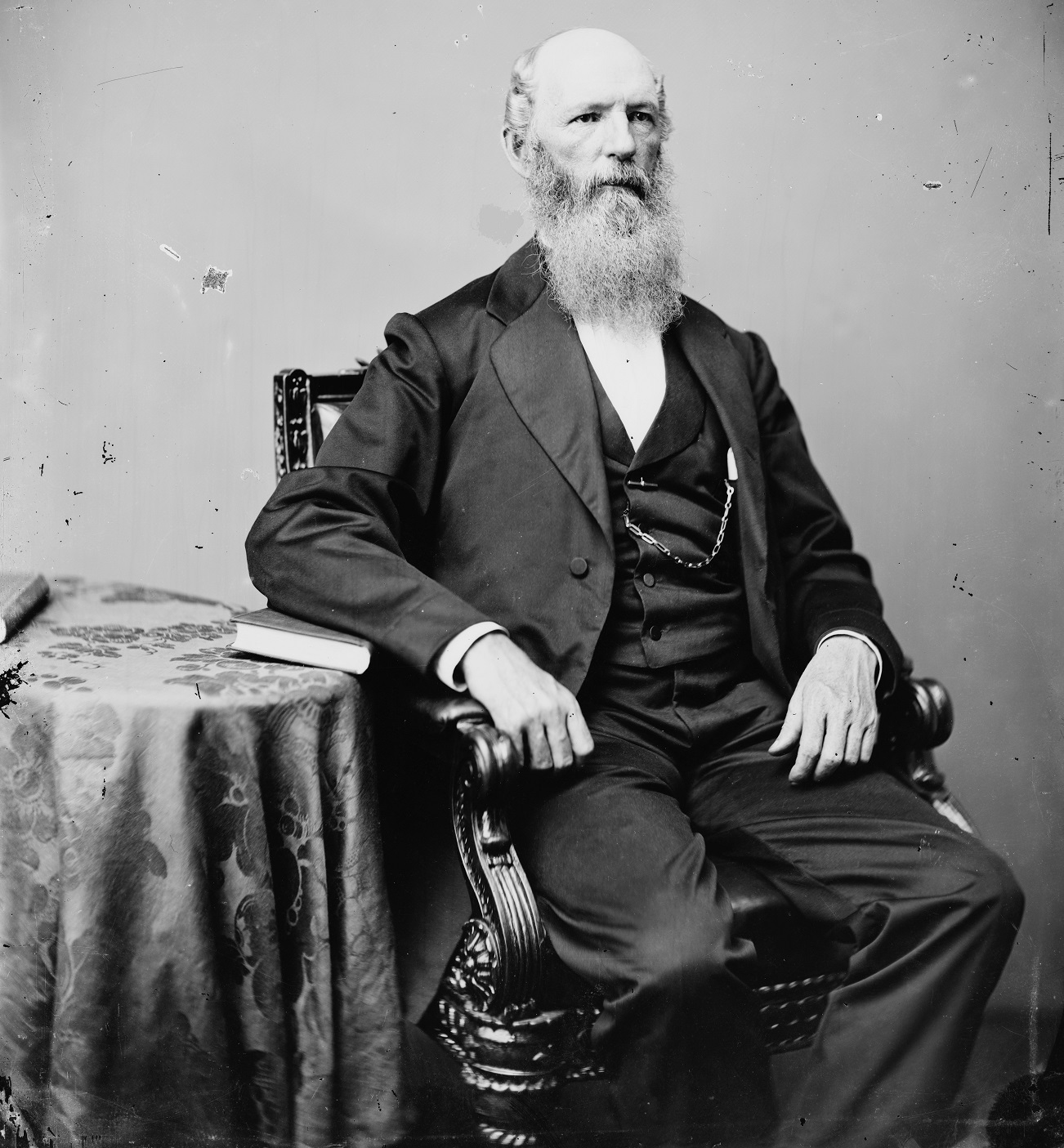 Charles St. John, New York Congressman